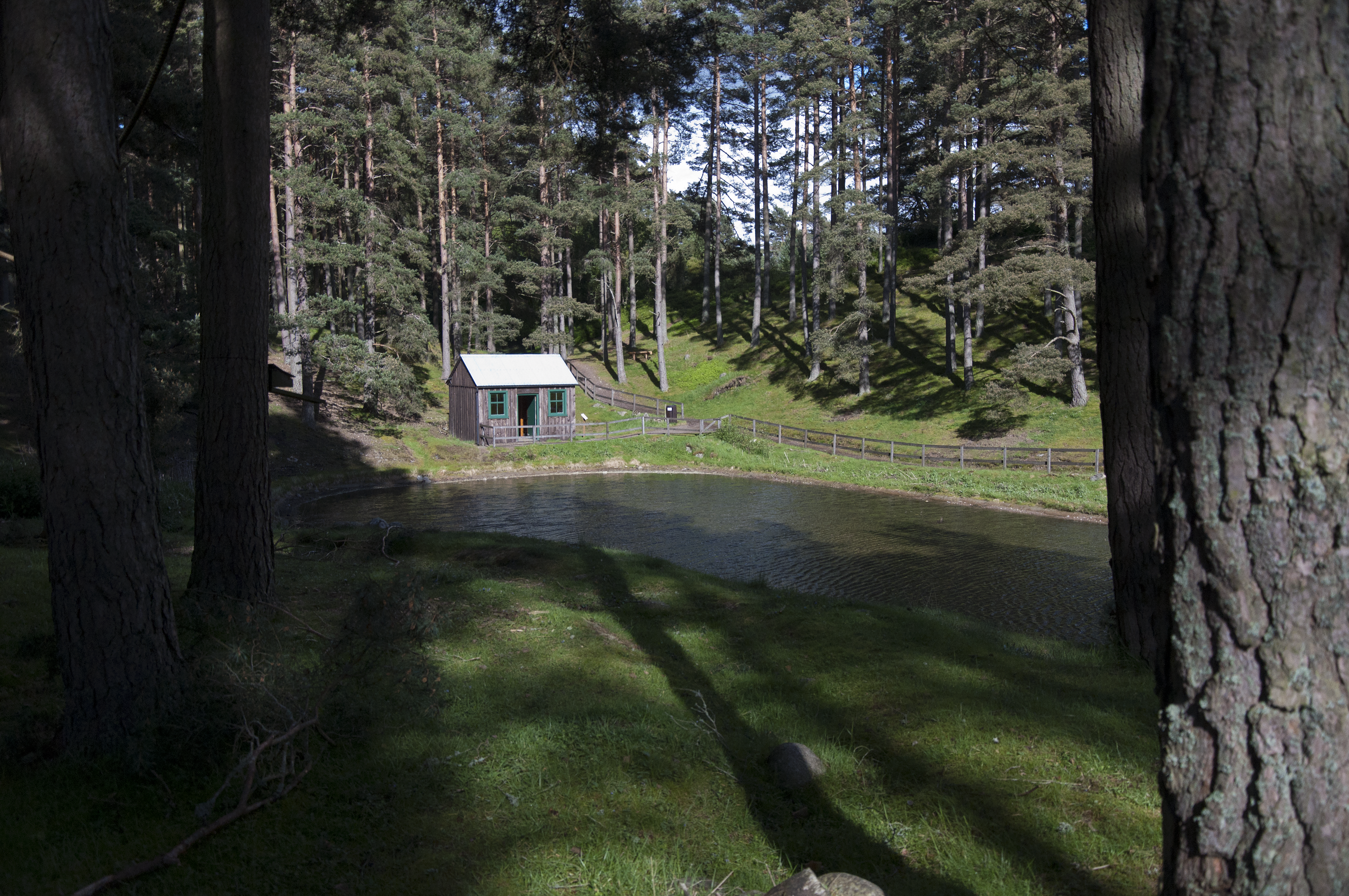 Newtonmore Curling Club Hut at the Highland Folk Museum, Newtonmore, Scotland